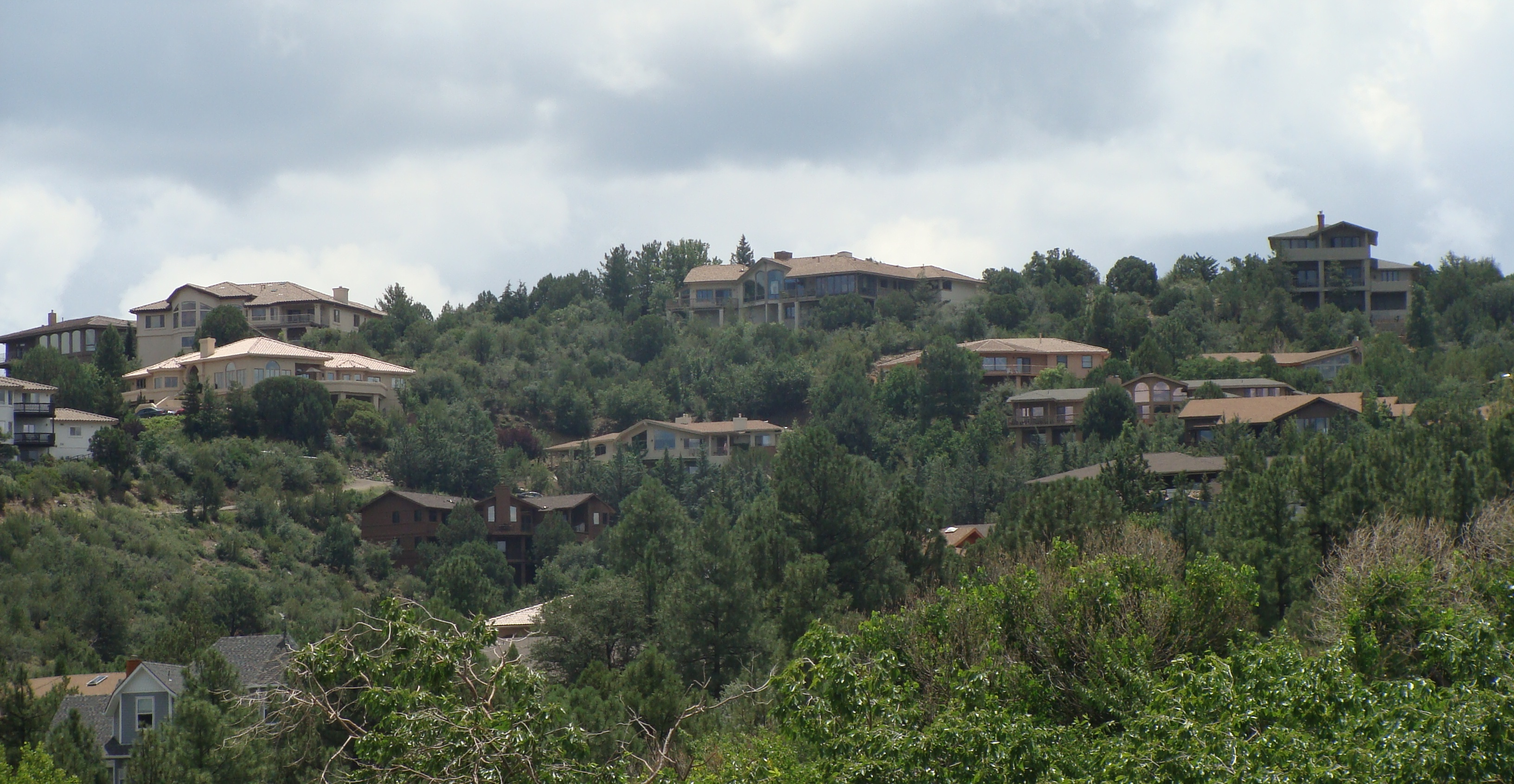 Prescott, Arizona, residential neighborhoods.